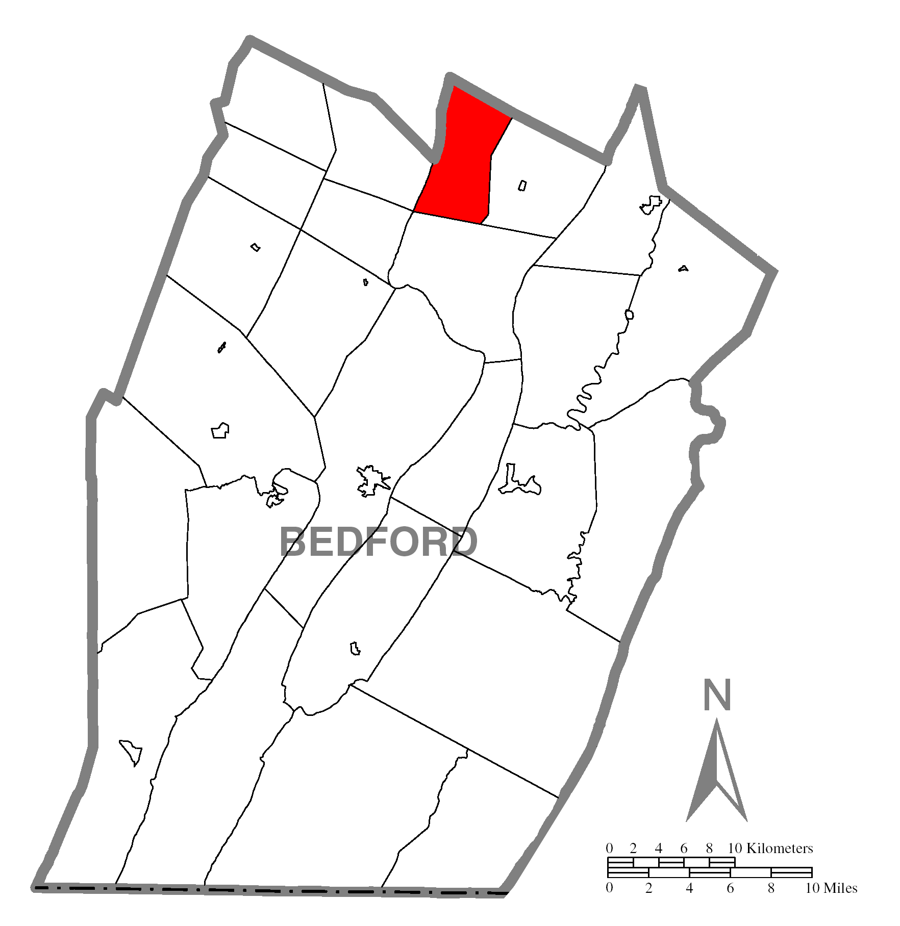 A map of Bedford County showing Bloomfield Township, Pennsylvania (alternate) highlighted on the map.